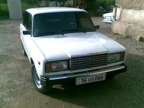 armenian auto index in Stepanakert, Nagorno Karabakh